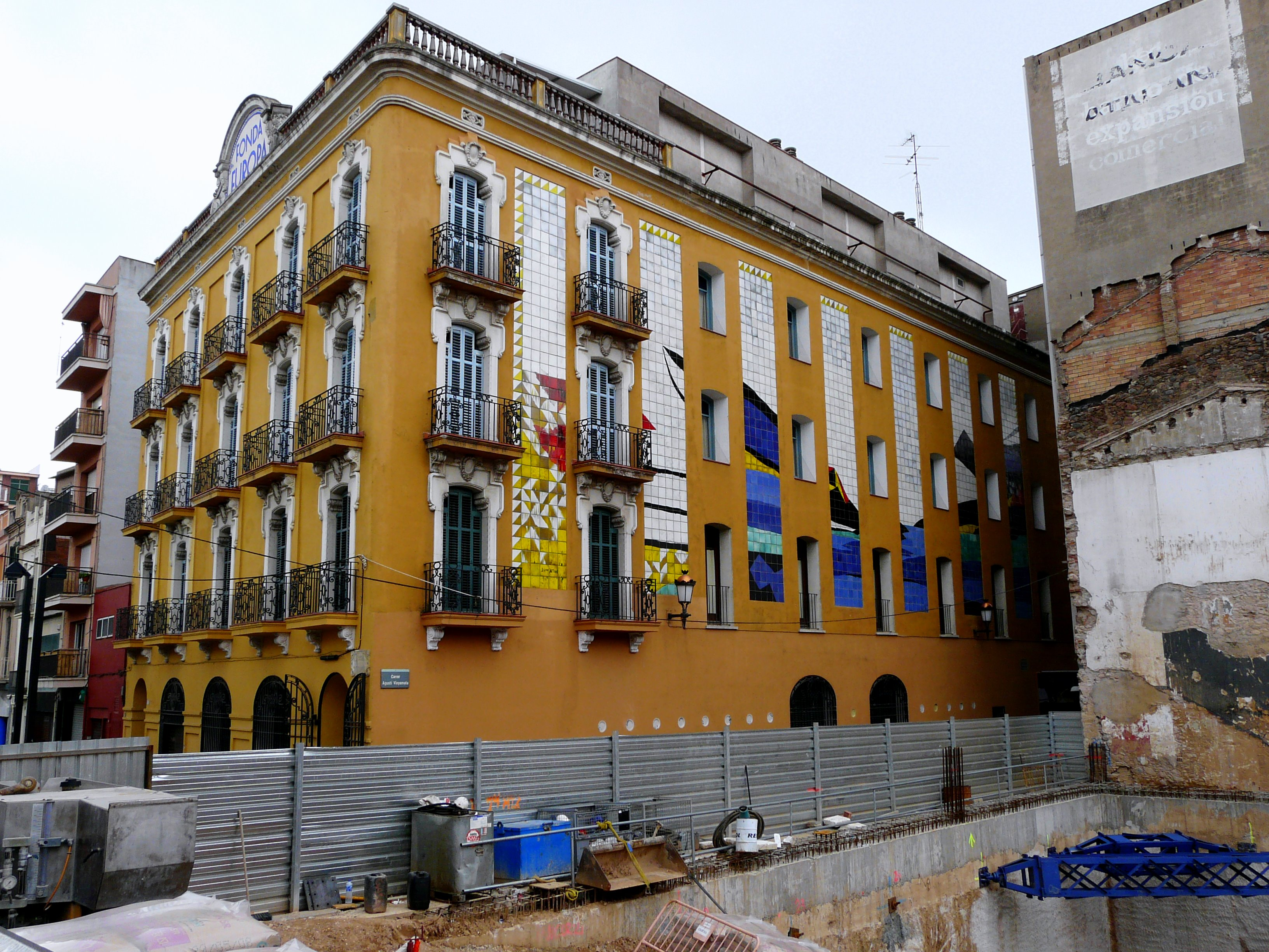 Joan Gardy Artigas ceramic mural decoration on the Fonda Europa building in Granollers, Catalonia.